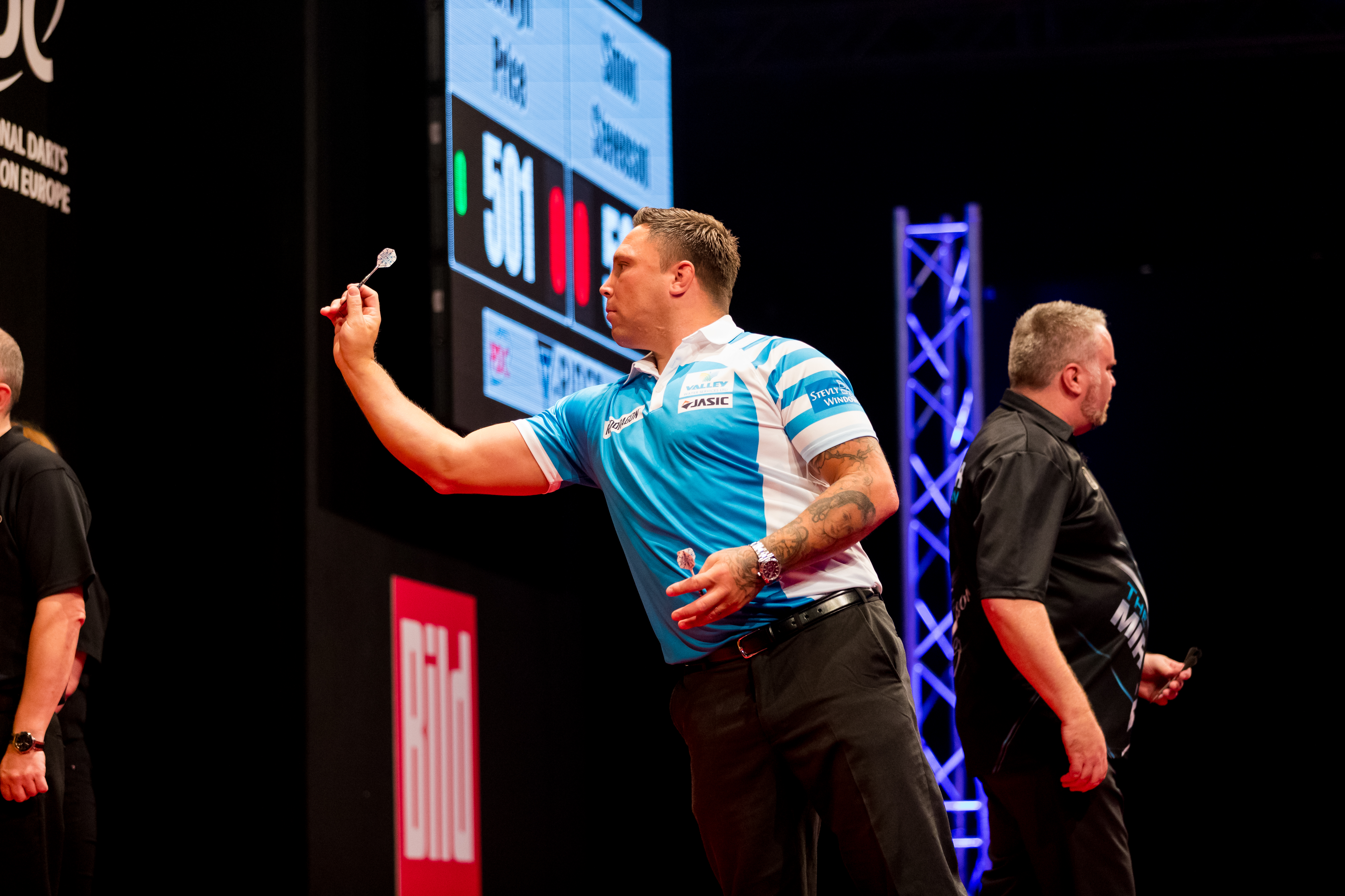 Gerwyn Price 6:3 Simon Stevenson during PDC Europe Darts Matchplay at Maimarkthalle, Mannheim, Baden-Württemberg, Germany on 2019-09-07, Photo: Sven Mandel